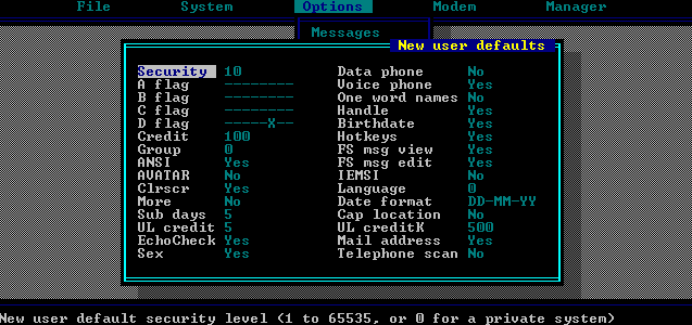 RemoteAcess configuration utility RAConfig 2.52.